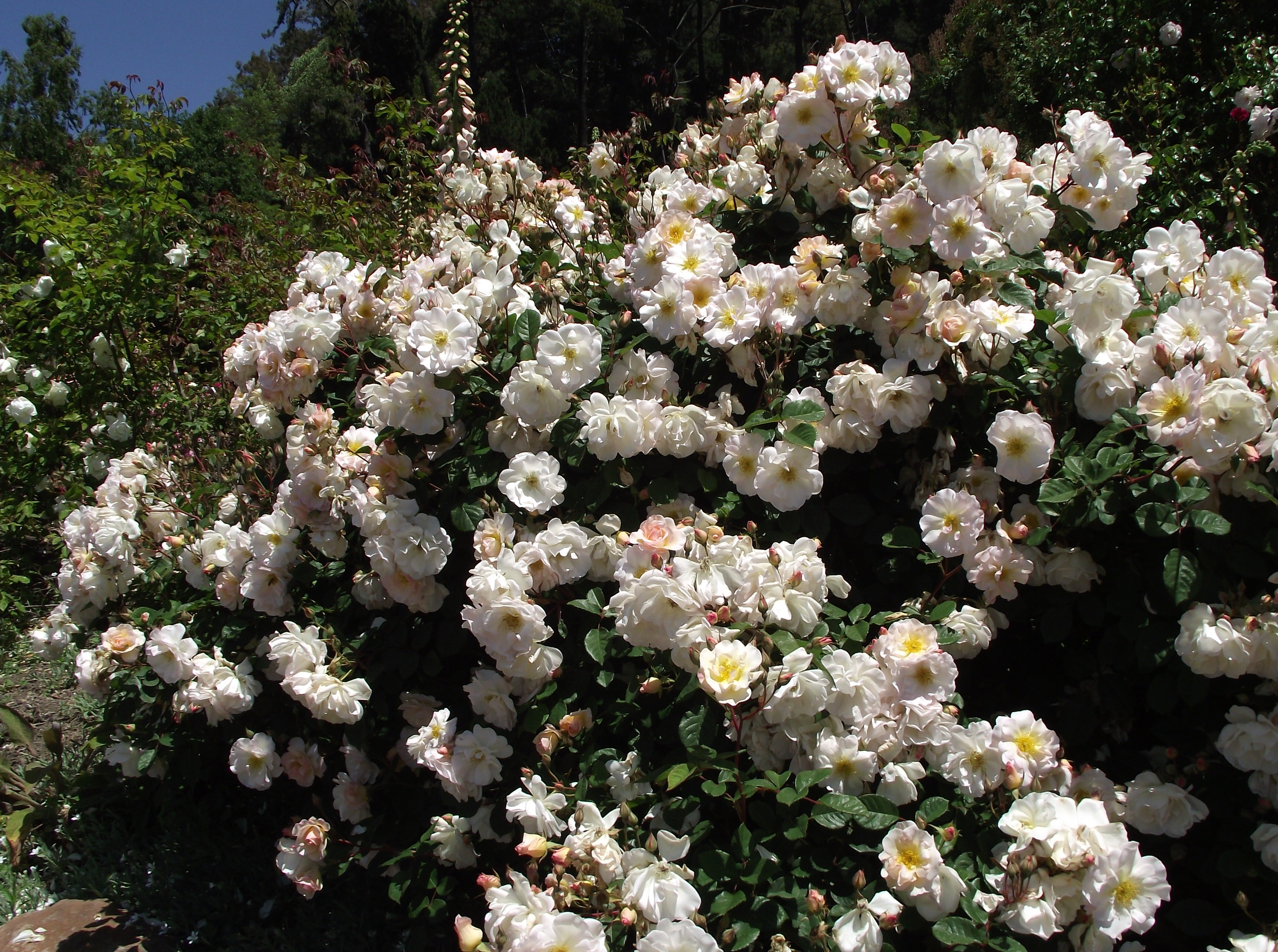 Rosa 'Penelope' in the UC Botanical Garden, Berkeley, California, USA. Identified by sign.